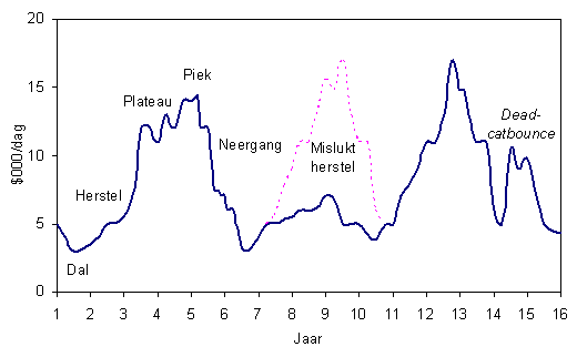 Example of phases in shipping cycle after Stopford, M. (2009): Maritime economics, 3rd edition